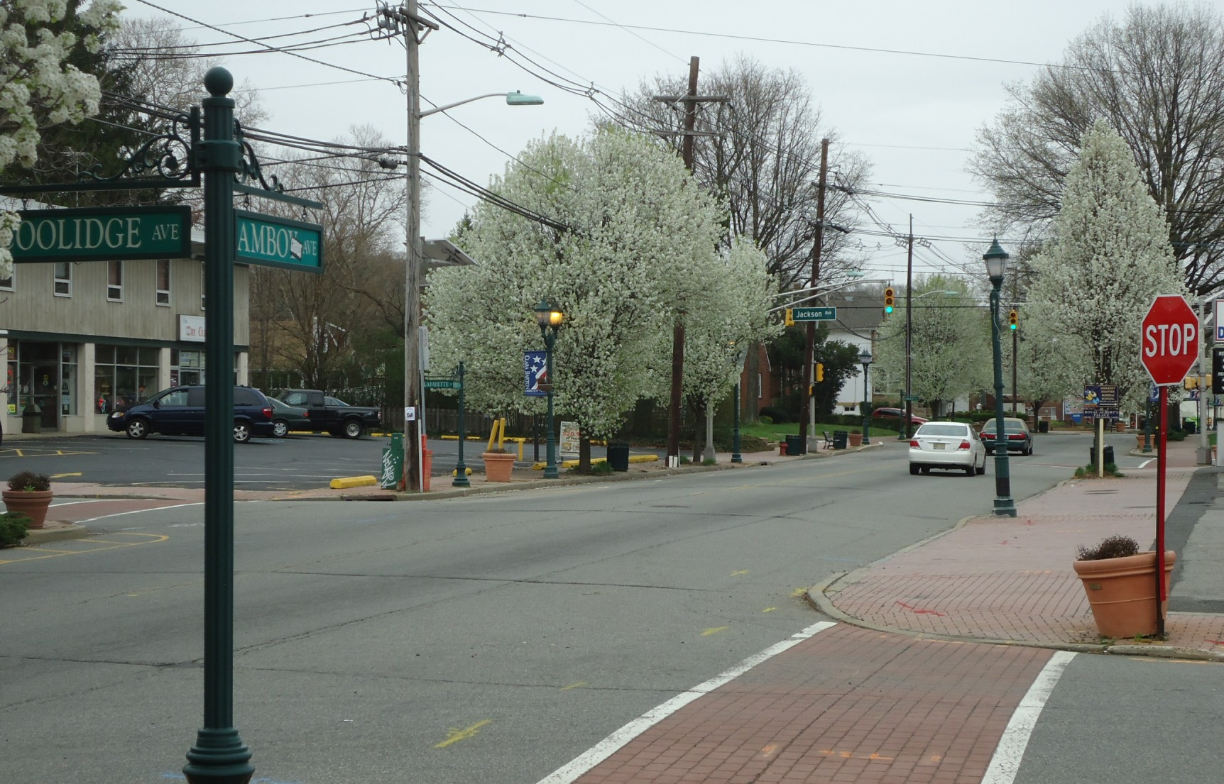 Looking eastwards on Amboy Avenue in Edison, New Jersey.